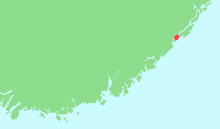 Locator map of Hisøy, Aust-Agder, Norway